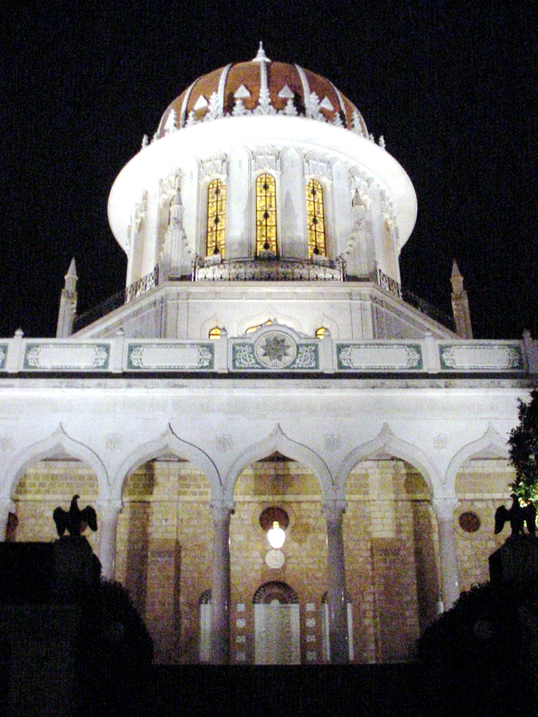 View up towards the Shrine of the Báb at night.